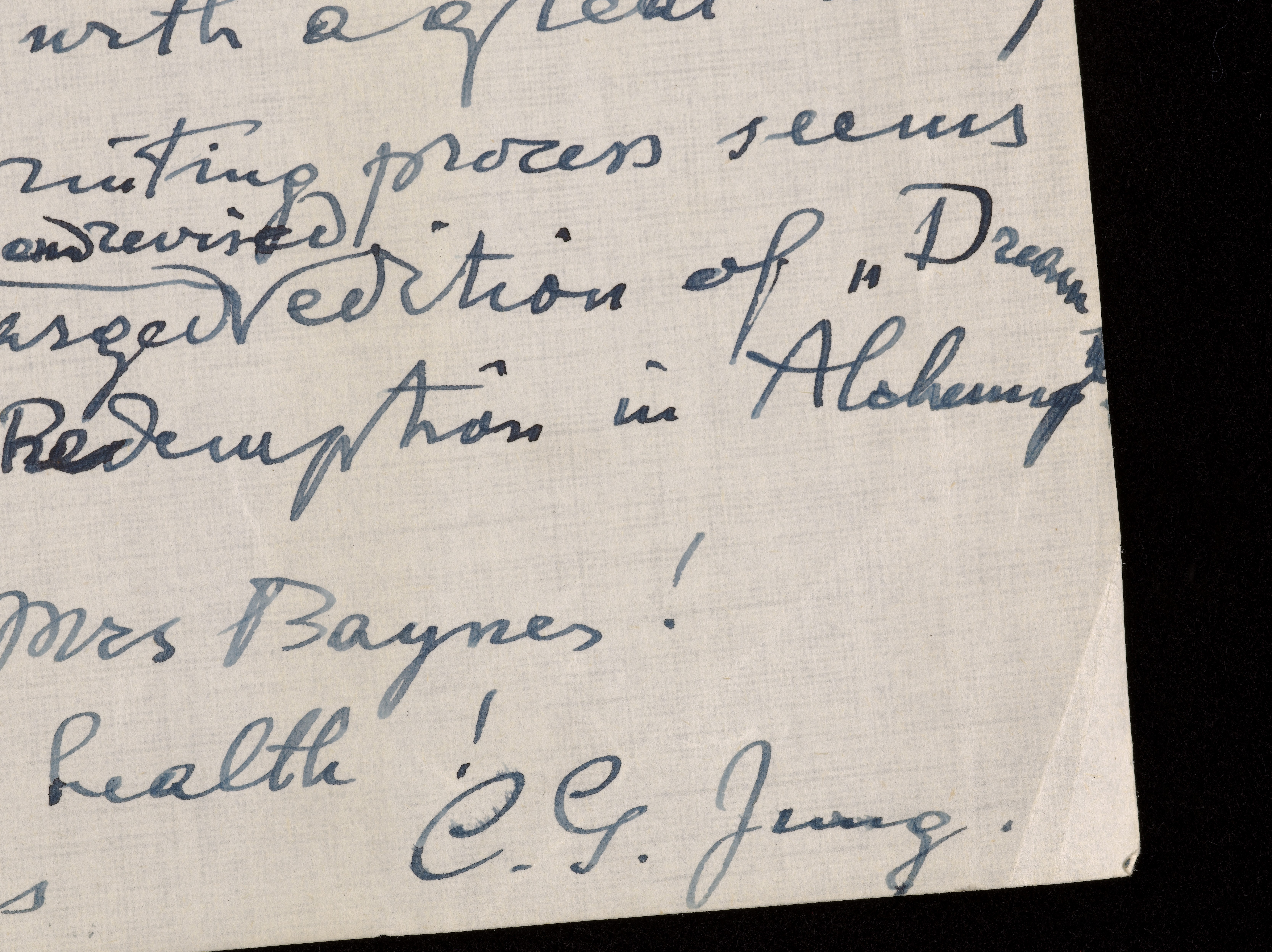 Letters to Helton from Carl Gustav Jung. Signature of Jung. Archives & Manuscripts Keywords: Psychiatry; C.G, Jung